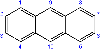 chemical structure of anthracene